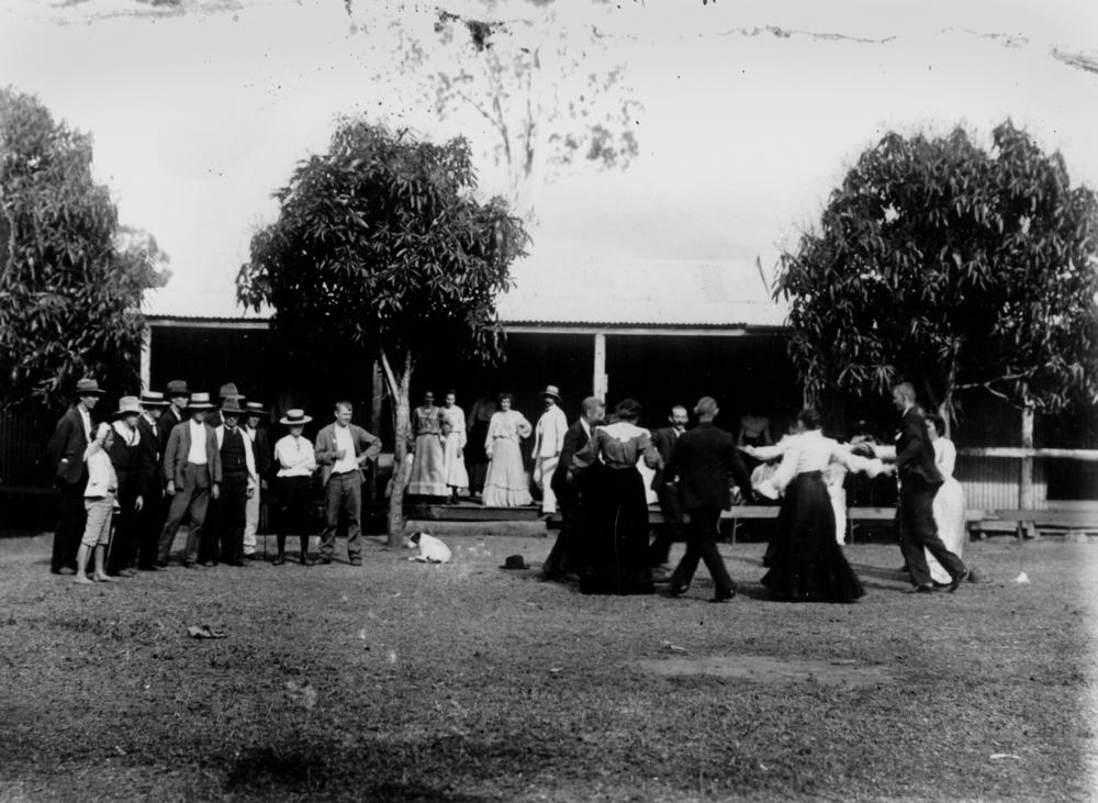 Country dance, Helenvale, ca. 1910. Men and women dancing in a circle in front of the Lion's Den Hotel at Helenvale, south of Cooktown in north Queensland. There are five couples dancing in a circle while a group of people watch the performance from a distance.